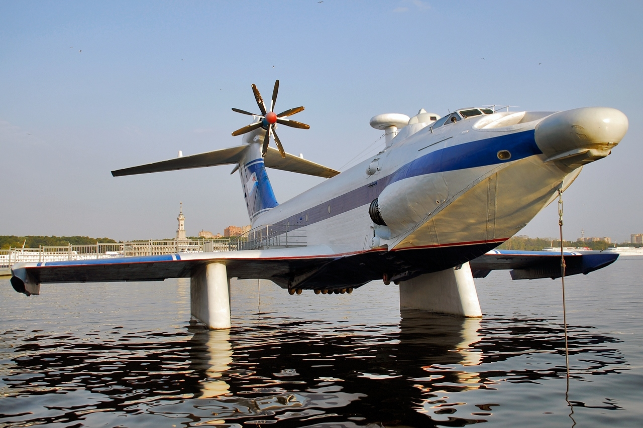 A-90 Orlyonok ground effect vehicle in Russian Navy museum, Moscow